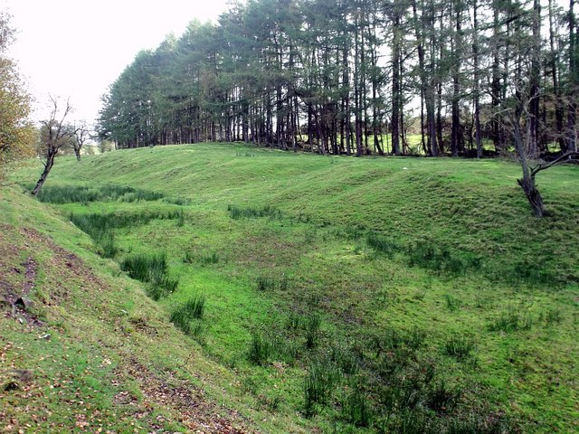 Antonine Wall near Westerwood The ditch becomes much shallower towards the fort.